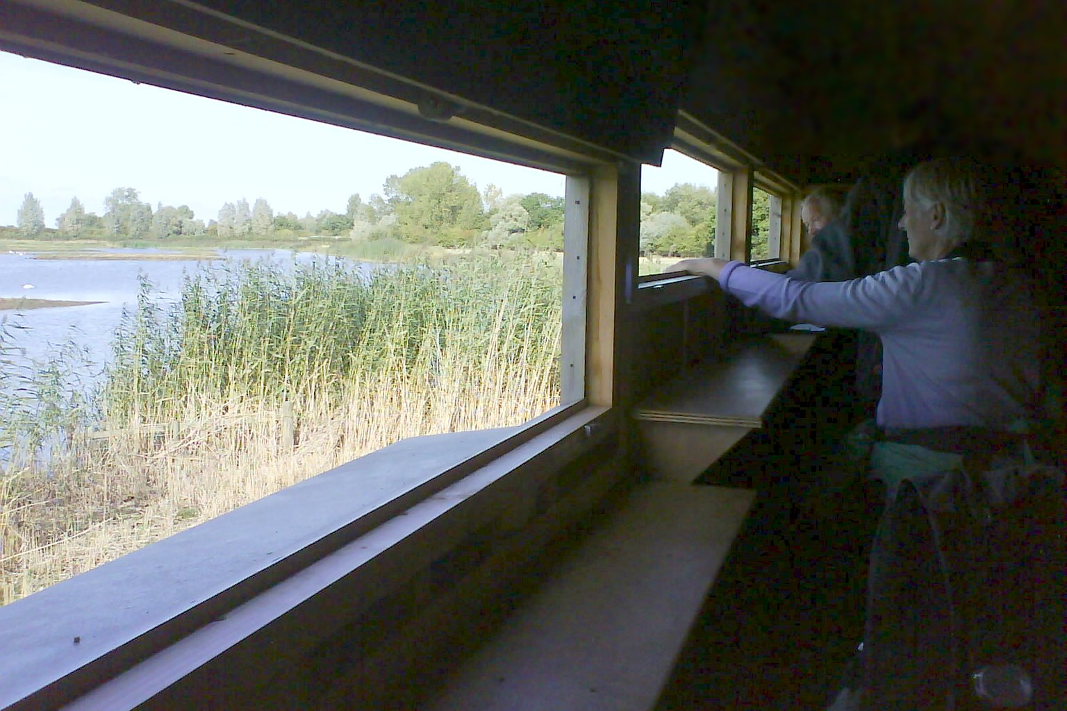 View of Moore Lake of the Fen Drayton Nature Reserve from inside the bird hide in October 2013.